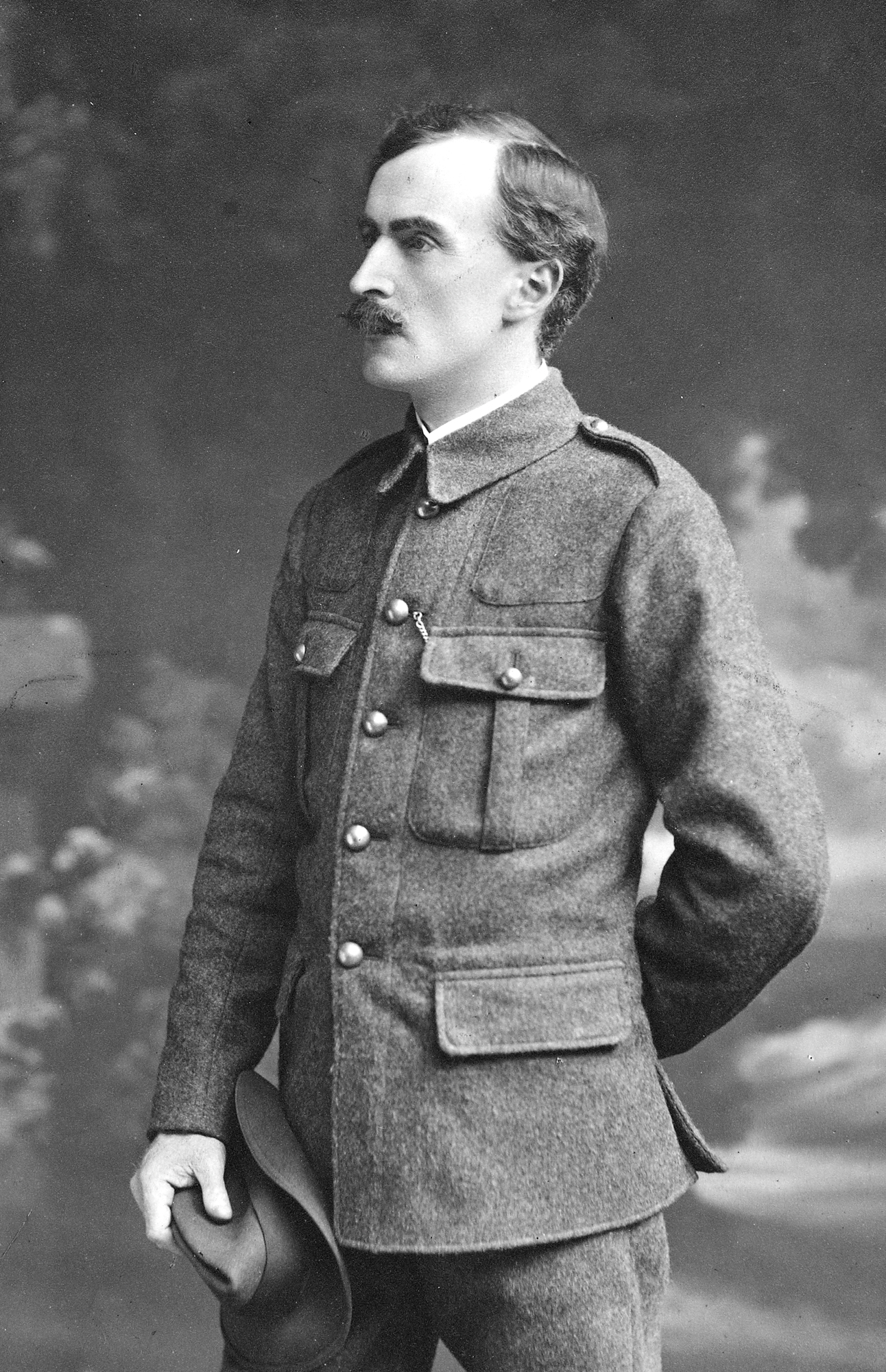 The O'Rahilly! The name for a generation of Irish children generated images of a dashing, courageous and heroic figure cut down in his prime as he fought in 1916. Beyond that few knew any more about him and for many this would be the first time they actually saw a photograph of him, It would be interesting to read more about him? As the contributors on this image point-out, this is unequivocally an image of Michael Joseph O'Rahilly (1875–1916), seemingly captured of him in the uniform of the Irish Volunteers. Attributed to the Lafayette Studio in Dublin (who either took the original image or made a copy), the general consensus is that this photograph was perhaps taken during or after 1913 (formation of the Irish Volunteers) and certainly before April 1916 (death during Easter Rising)..... Photographer: Lafayette Ltd, photographers Collection: Irish Political Figures Photographic Collection Date: Catalogue range c.1900-1916. Probably after c.1913 (formation of Irish Volunteers). Certainly before 1916 (death) NLI Ref: NPA POLF231 You can also view this image, and many thousands of others, on the NLI’s catalogue at